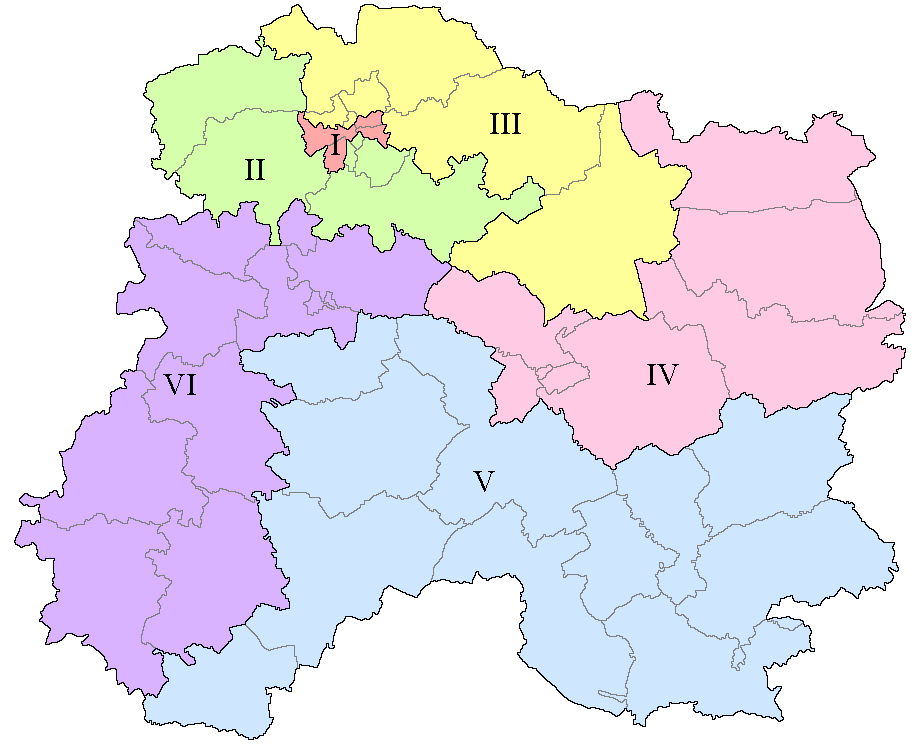 Map of Marne's constituencies (1988-2012)